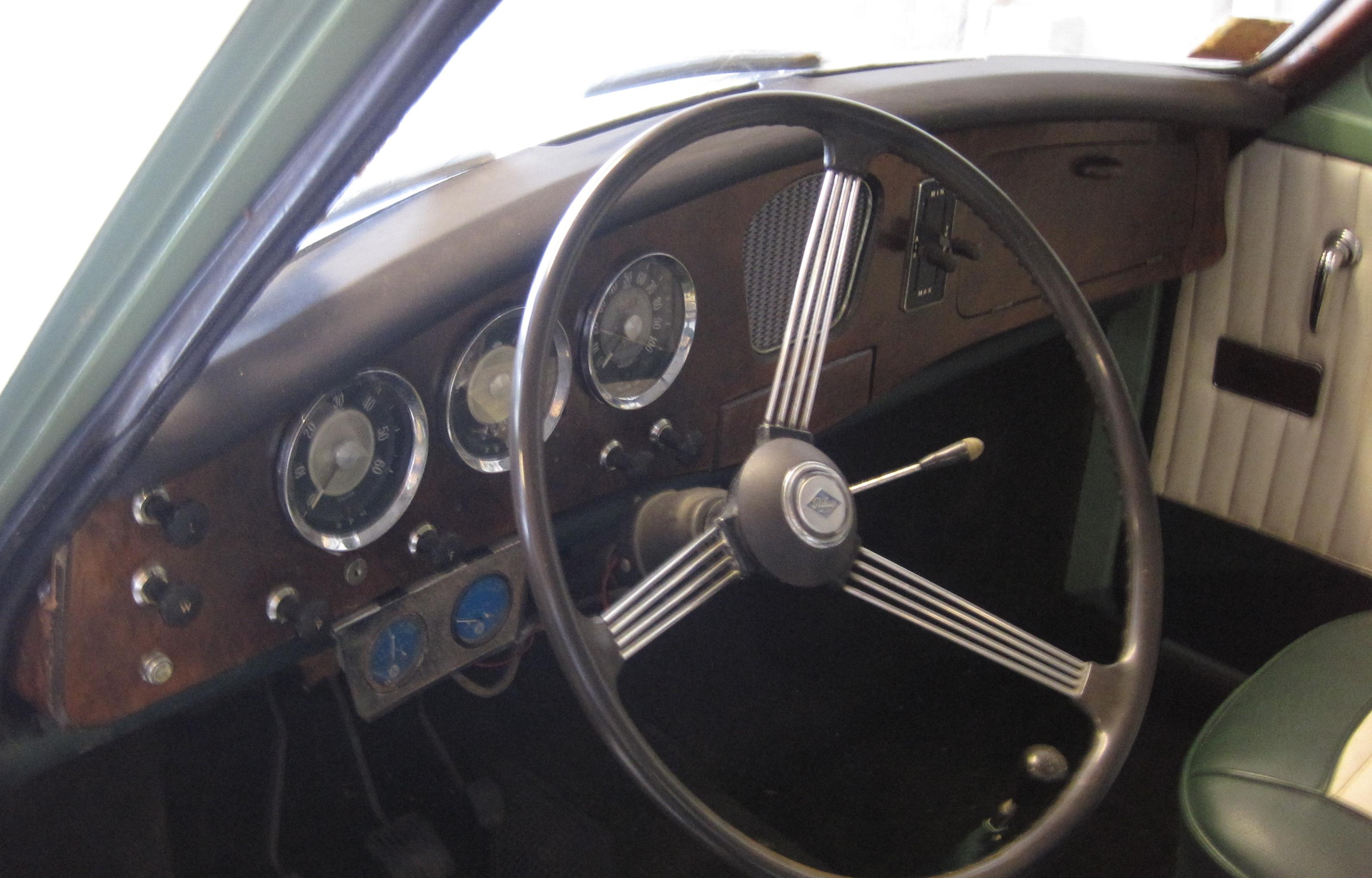 A photo of a Riley One-Point-Five Dashboard from a 1959 Series I Left-Hand-Drive North American export model. The Blue gauges mounted one the lower left are not original, nor is the upholstery on the door or seat.